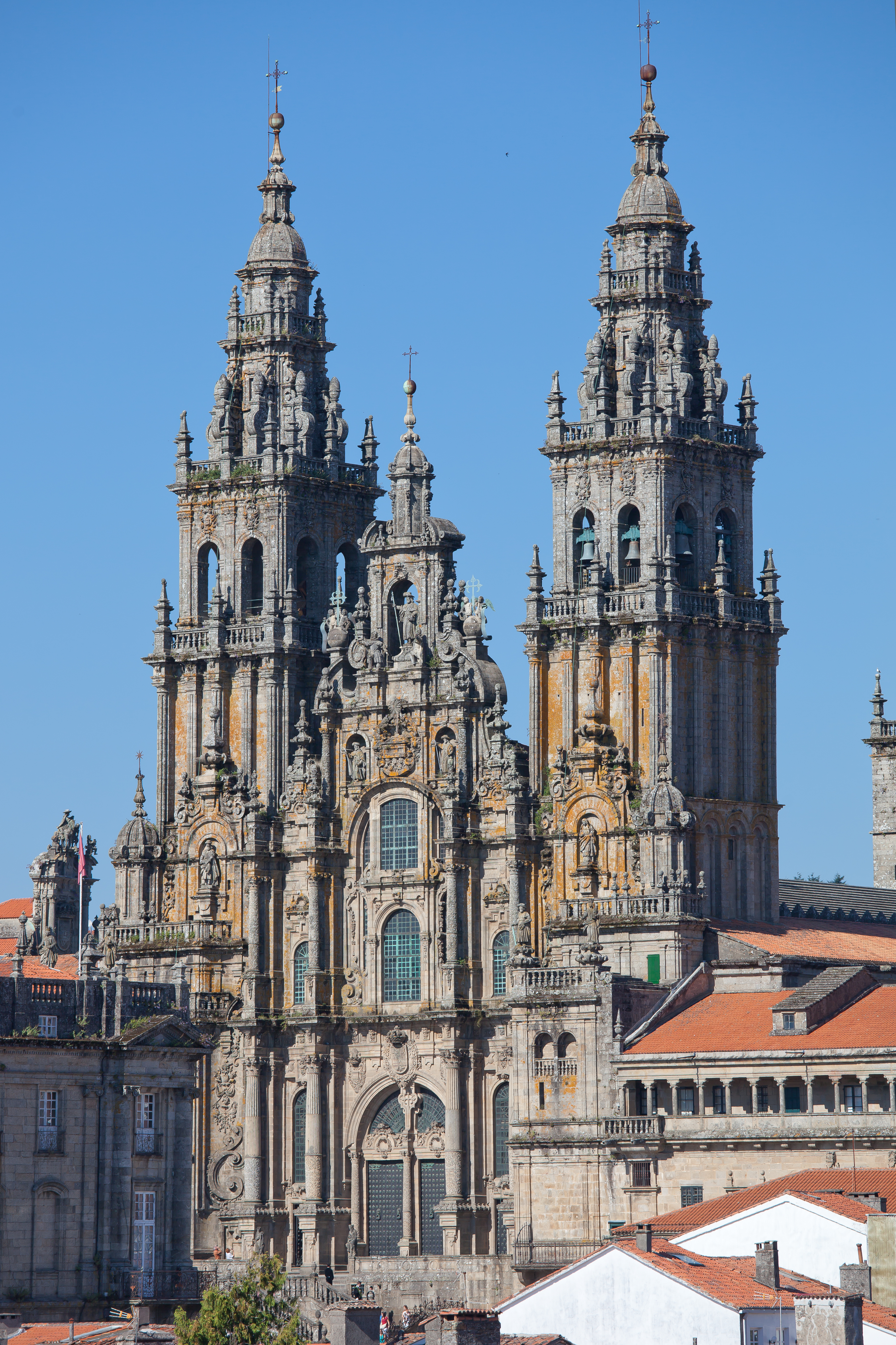 Facade of "O Obradoiro", cathedral of Santiago de Compostela, Santiago de Compostela, Galicia.